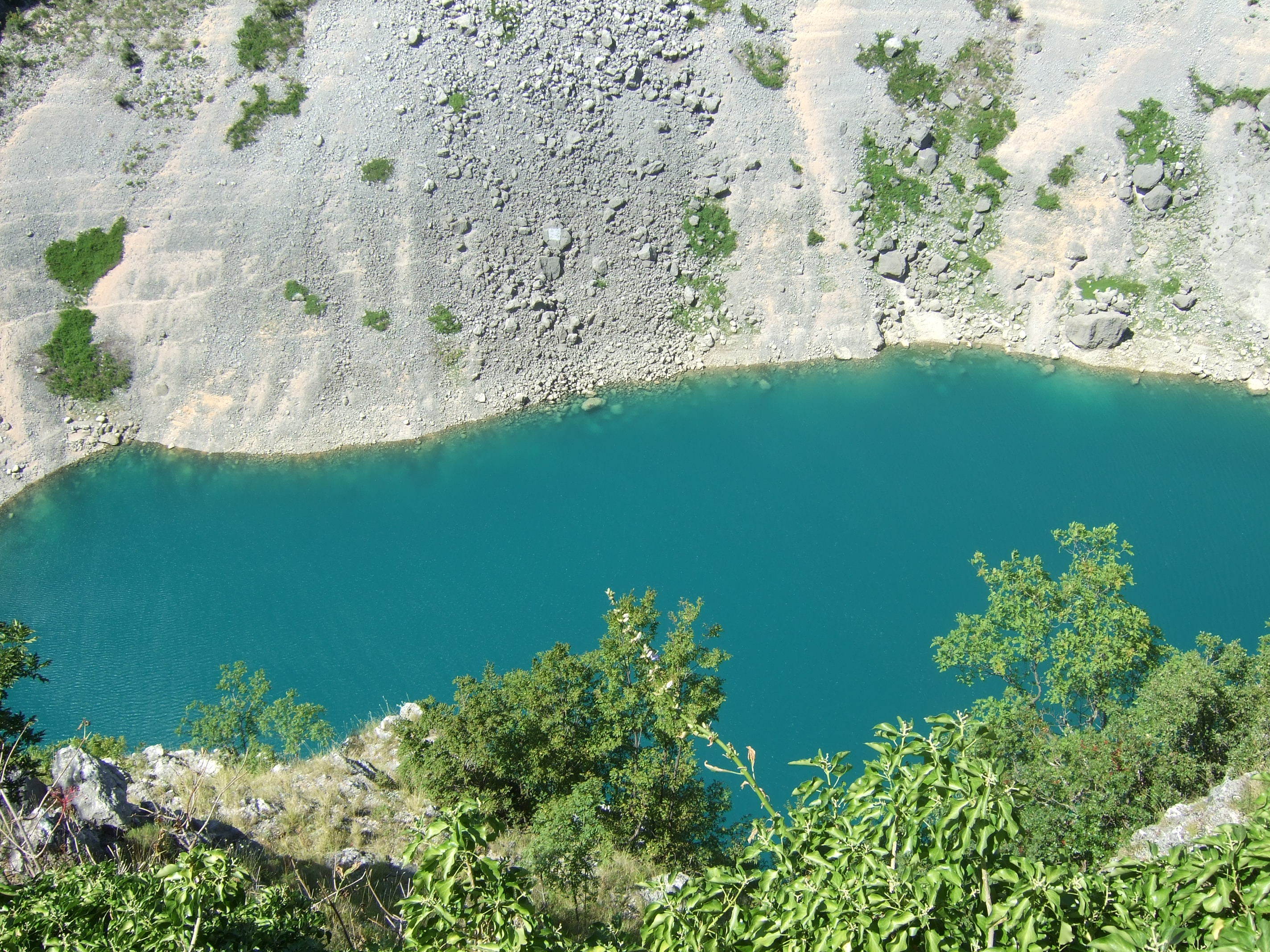 Modro Jezero (The Blue Lake) near Imotski (Croatia)